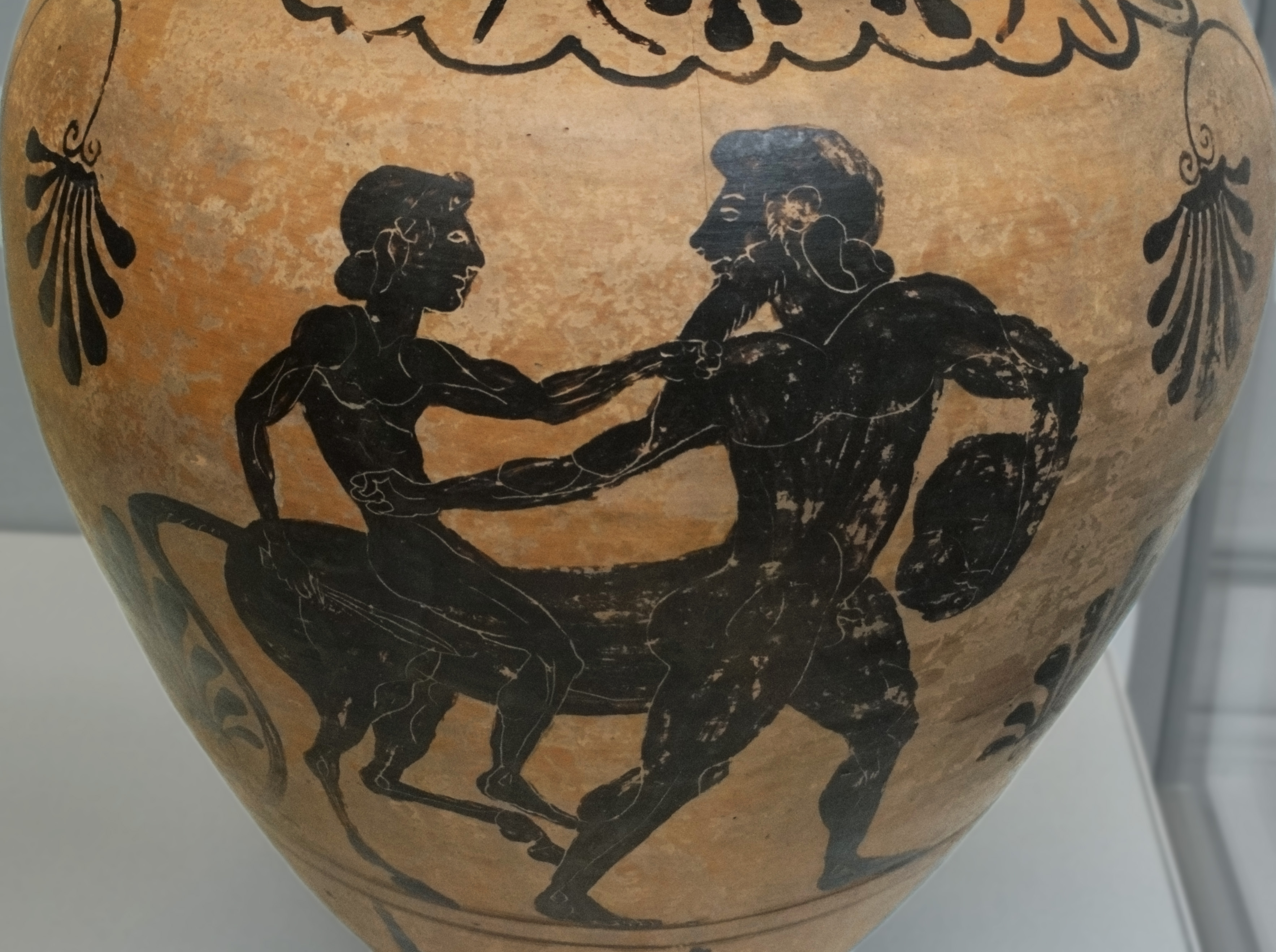 Decorated amphora in the British Museum. Figures suggested to be Achilles and Cheiron. Etruscan 500BC-480BC.